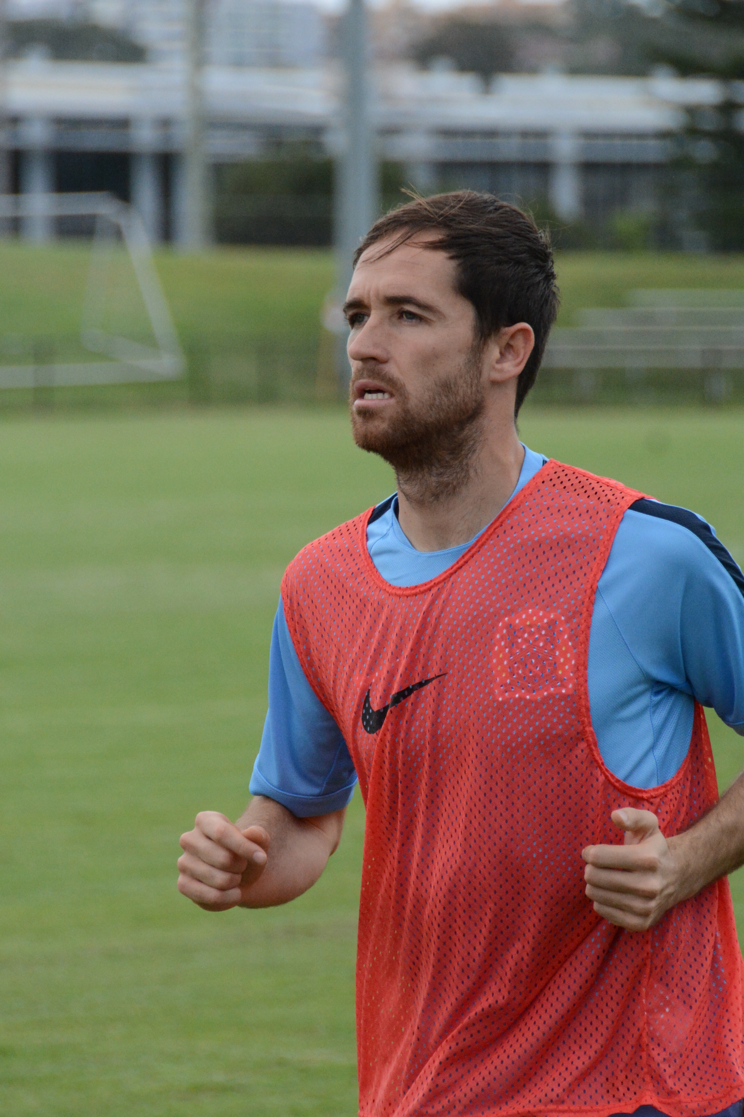 Photos from the Guangzhou R&F Training Session ahead of their Asian Champions League Qualifying match against Central Coast Mariners.